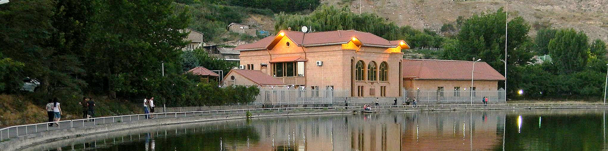 Vardavar lake, Lyon park of Yerevan, Armenia.